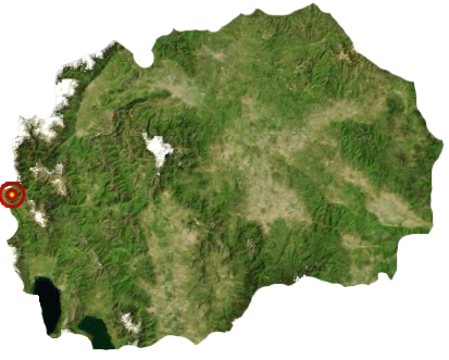 Location map of Debar, Republic of Macedonia